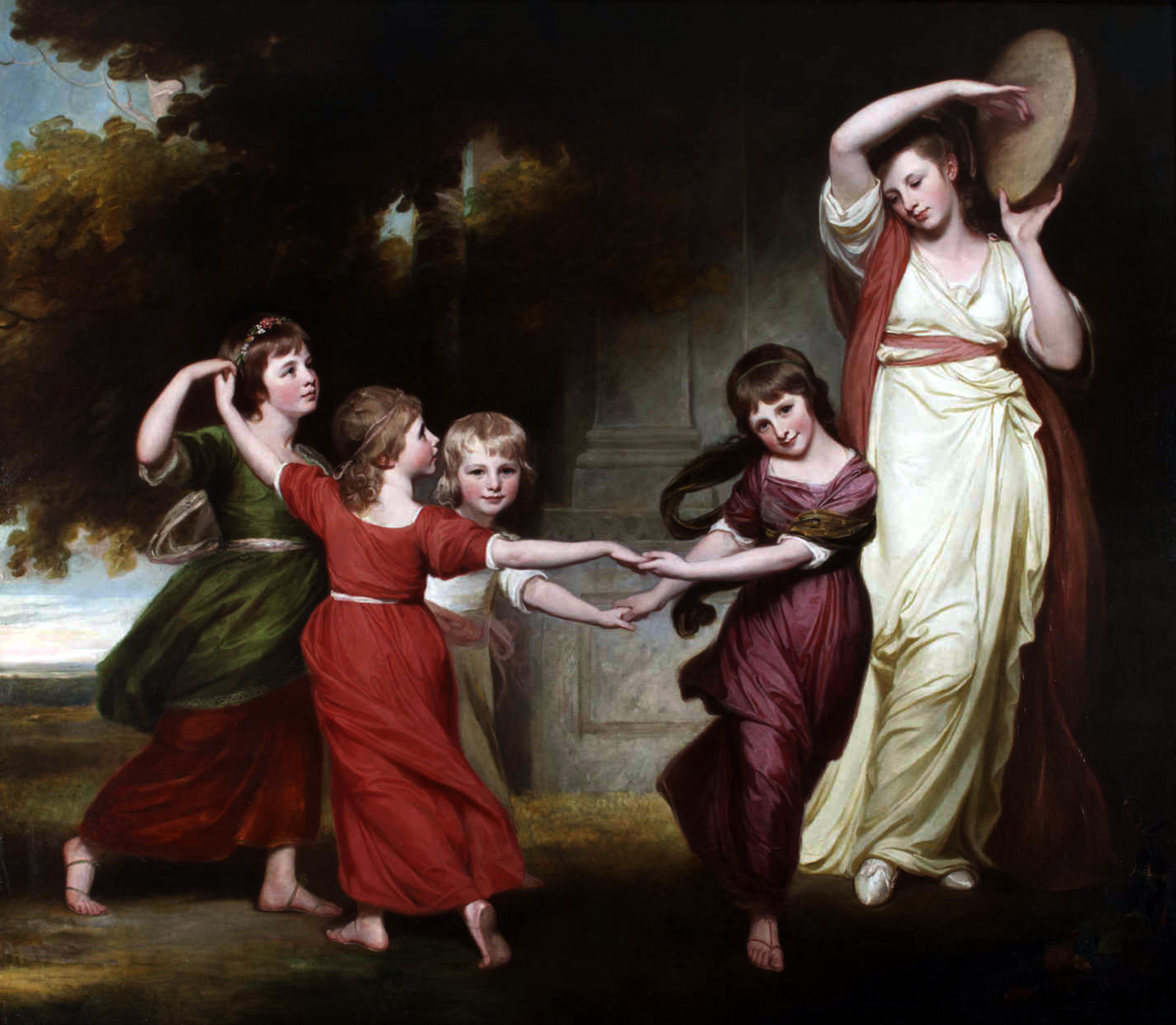 The Stafford Children: Lady Anne (1761-1832), Lady Georgiana Augusta Leveson-Gower, later Countess of St Germans (1769-1806), Lady Susan Leveson-Gower, later Countess of Harrowby (c.1771-1838), Lady Charlotte Sophia Leveson-Gower, later Duchess of Beaufort (1771-1854) and Granville Leveson-Gower, later 1st Earl Granville (1773-1846)